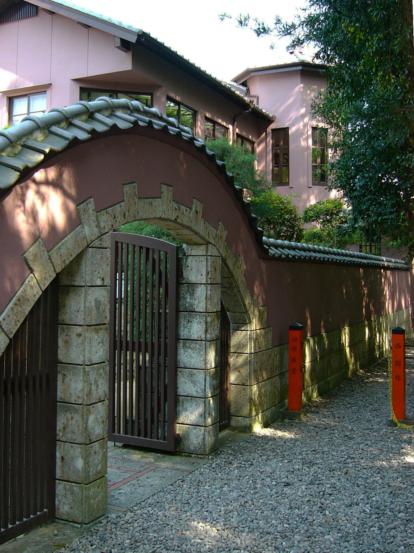 Sato Haruo Memorial Museum, Shingu, Wakayama prefecture, Japan